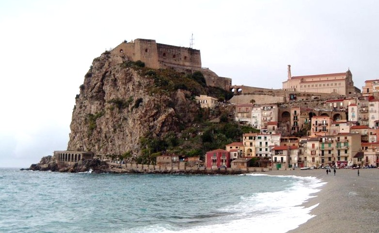 Photo of the Scilla Castle